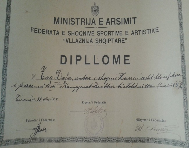 100 m viti 1938